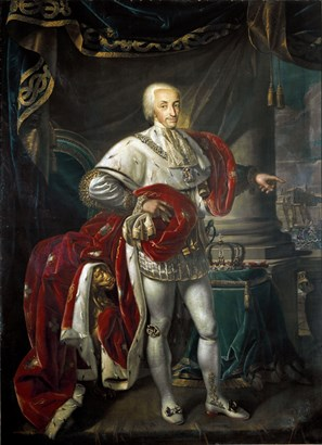 Portrait of Victor Emmanuel I of Sardinia (1759-1824)